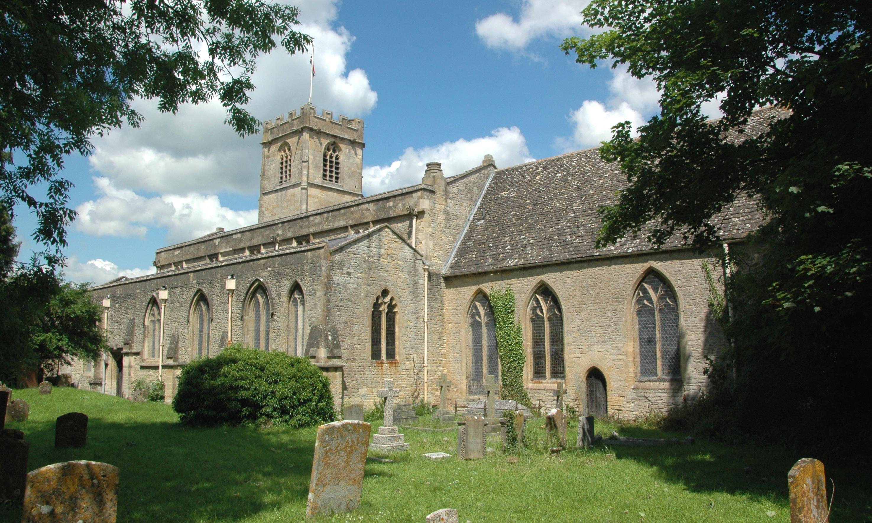 Church of England parish church of St Leonard, Eynsham, Oxfordshire: view from the southeast